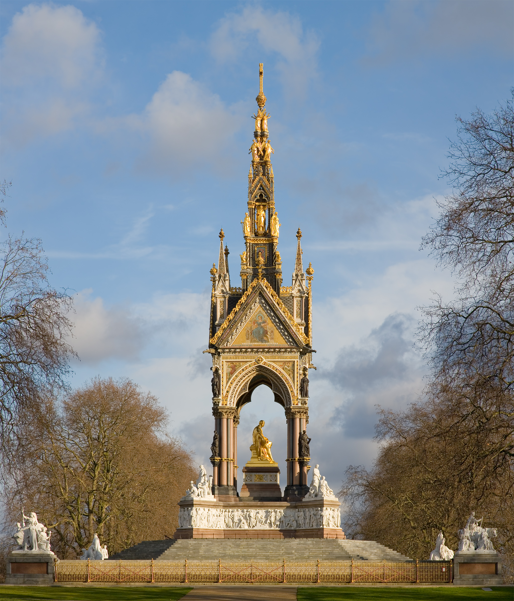 A panorama of 4 segments taken by myself with a Canon 5D and 24-105mm f/4L IS lens.